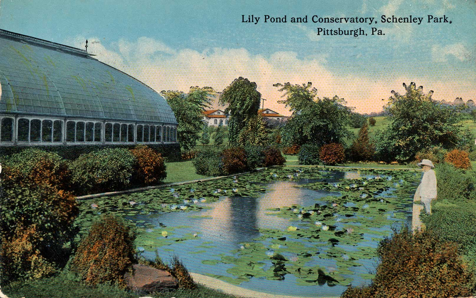 The first of Phipps' Aquatic Gardens, built sometime after 1910, is pictured here on this vintage postcard postmarked 1915. The second pool would be installed in 1939.